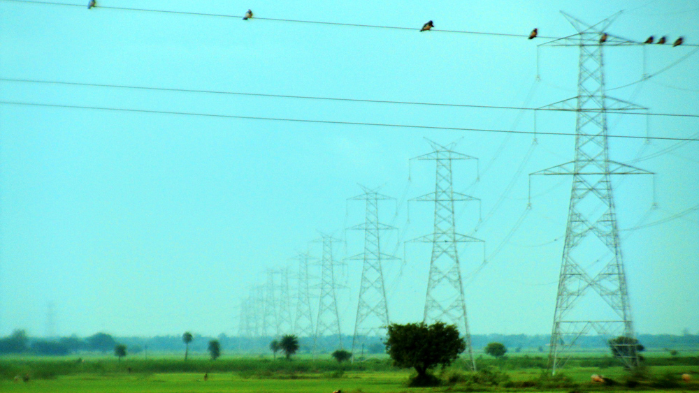 Choudwar is a city and a municipality in Cuttack district in the state of Odisha, India.